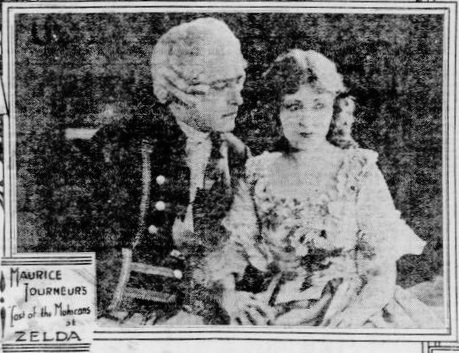 Newspaper advertisement for the American film The Last of the Mohicans (1920) with George Hackathorne and Lillian Hall, on page 8 of the March 19, 1921 Duluth Herald.